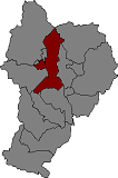 Location of la Guingueta d'Àneu in Pallars Sobirà